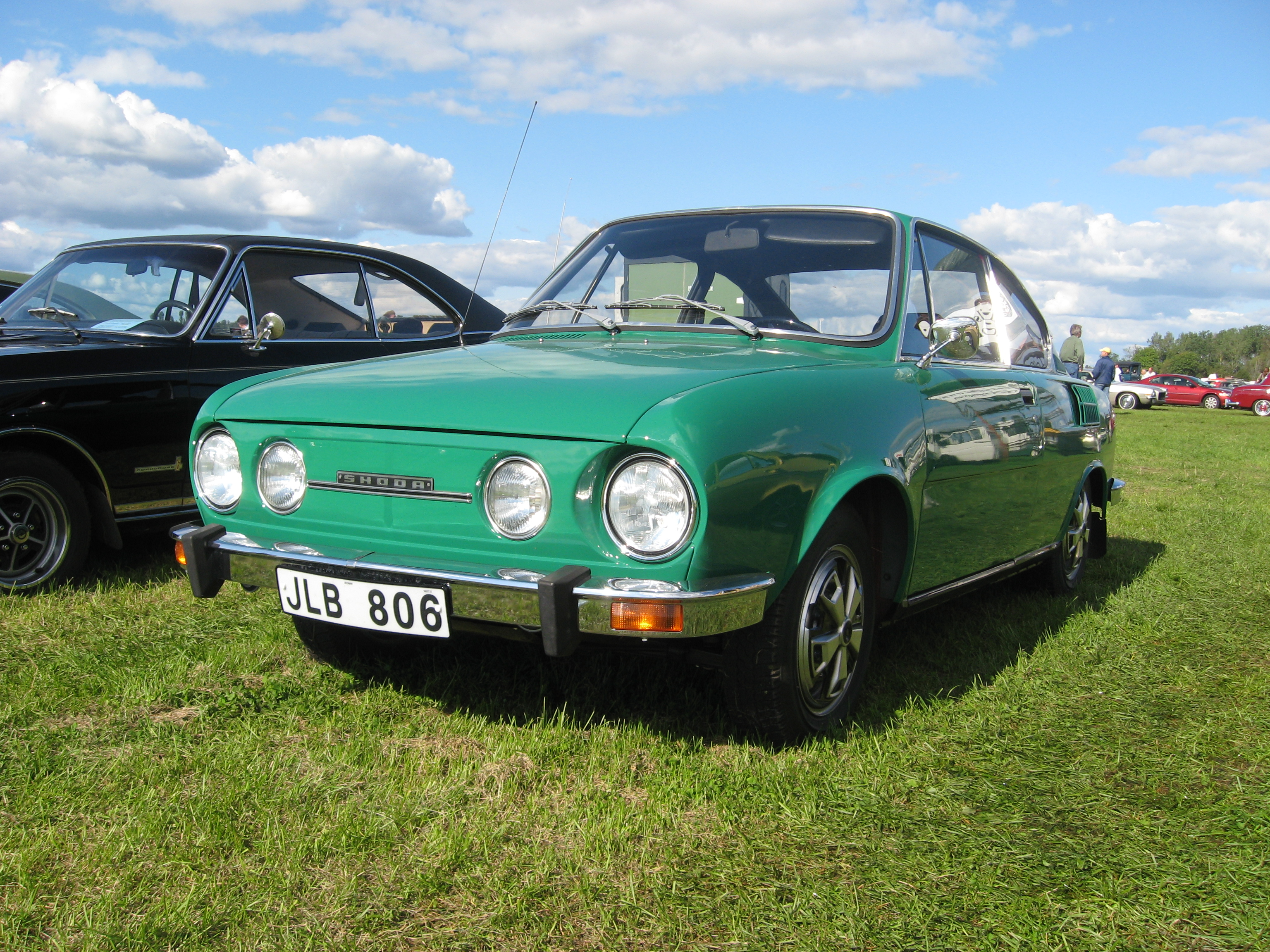 Škoda S 110 R